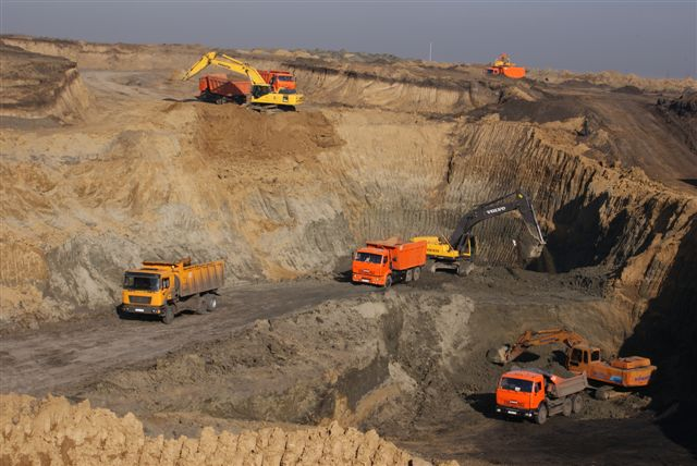 Karagaylinskoye